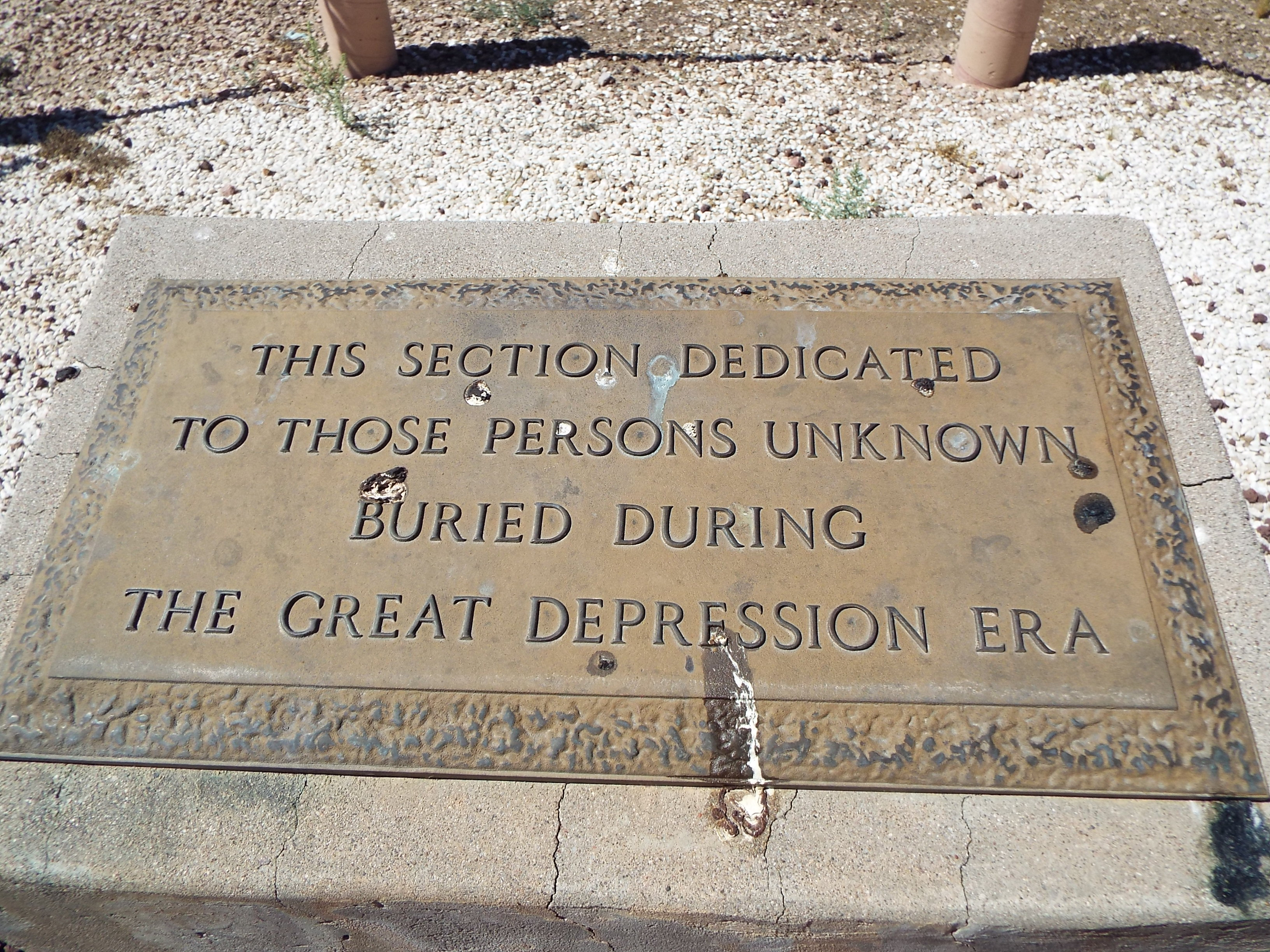 Plaque on the memorial dedicated to those persons unknown buried during the Great Depression era in the City of Mesa Cemetery in Mesa, Arizona